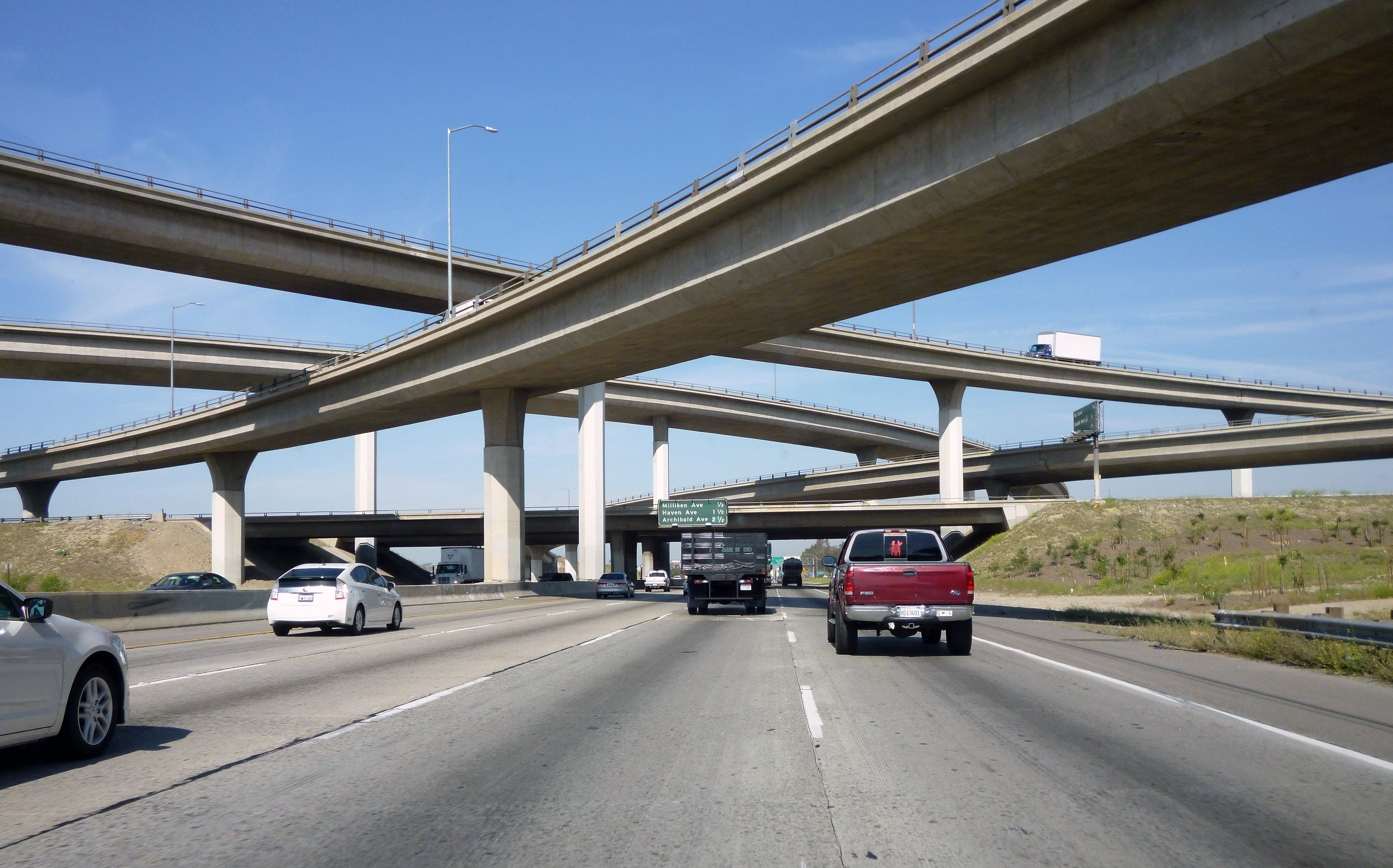 The interchange of Interstates 10 and 15 in Ontario, California as seen from traffic headed westbound on Interstate 10. Photographed by user Coolcaesar on May 5, 2014.